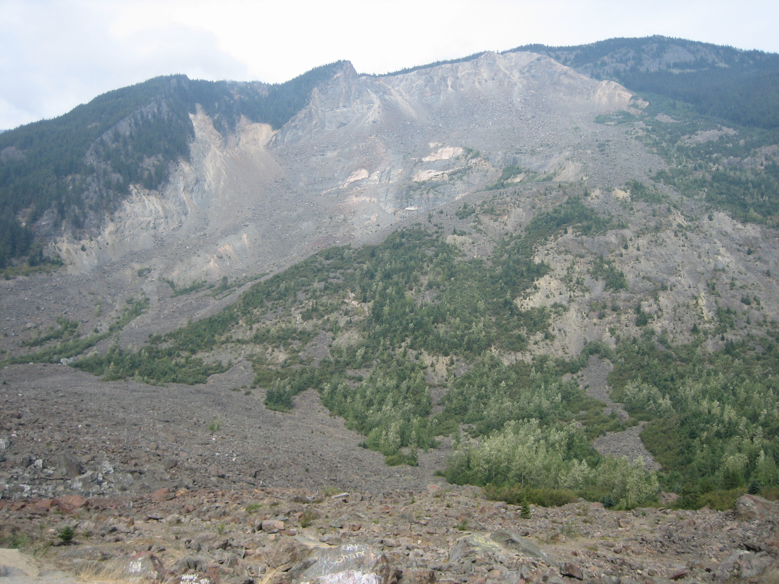 The Hope Slide, near Hope, British Columbia. Image by Fawcett5, August, 2005.